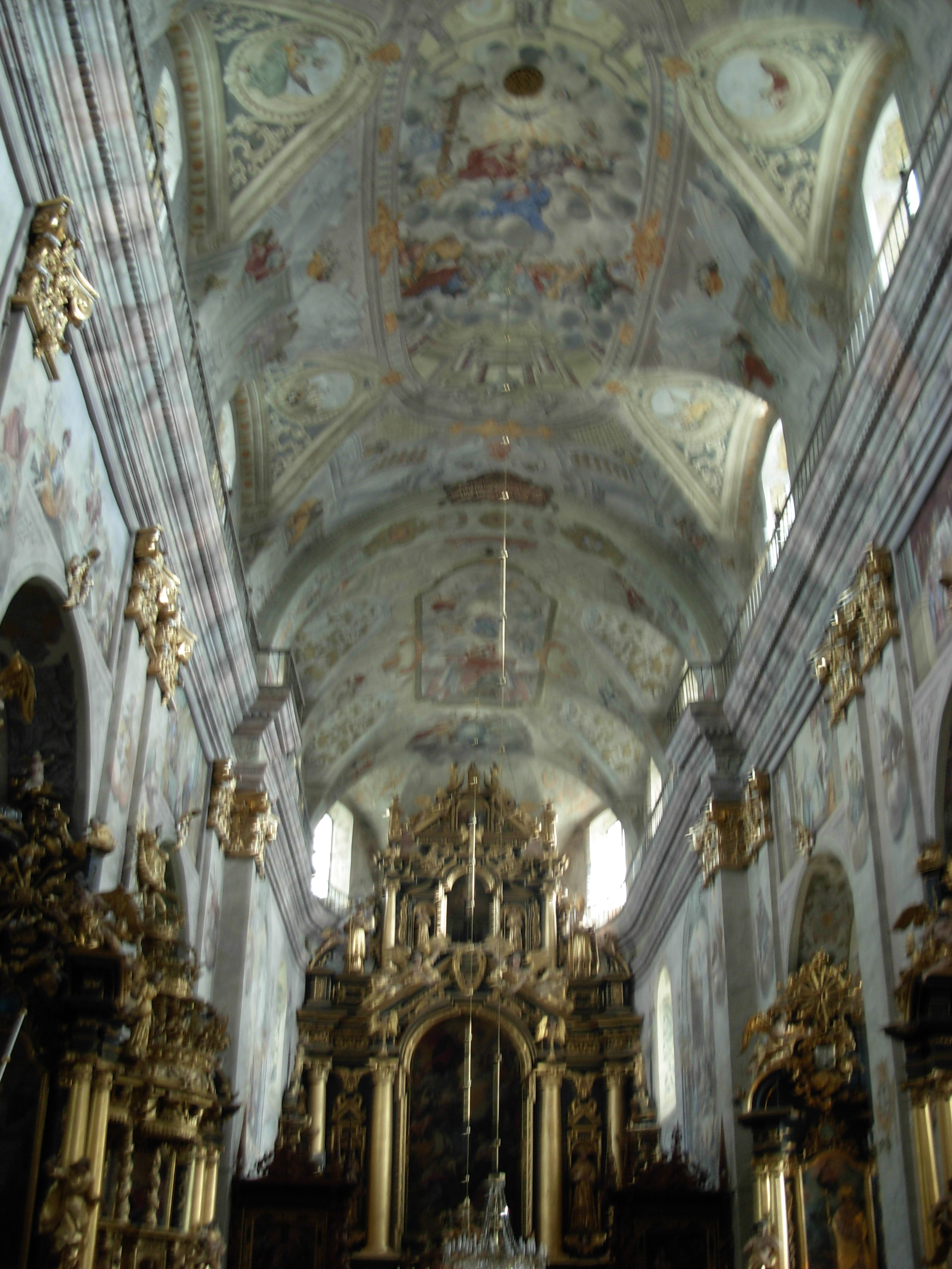 Bernardine Monastery in Leżajsk, Poland.